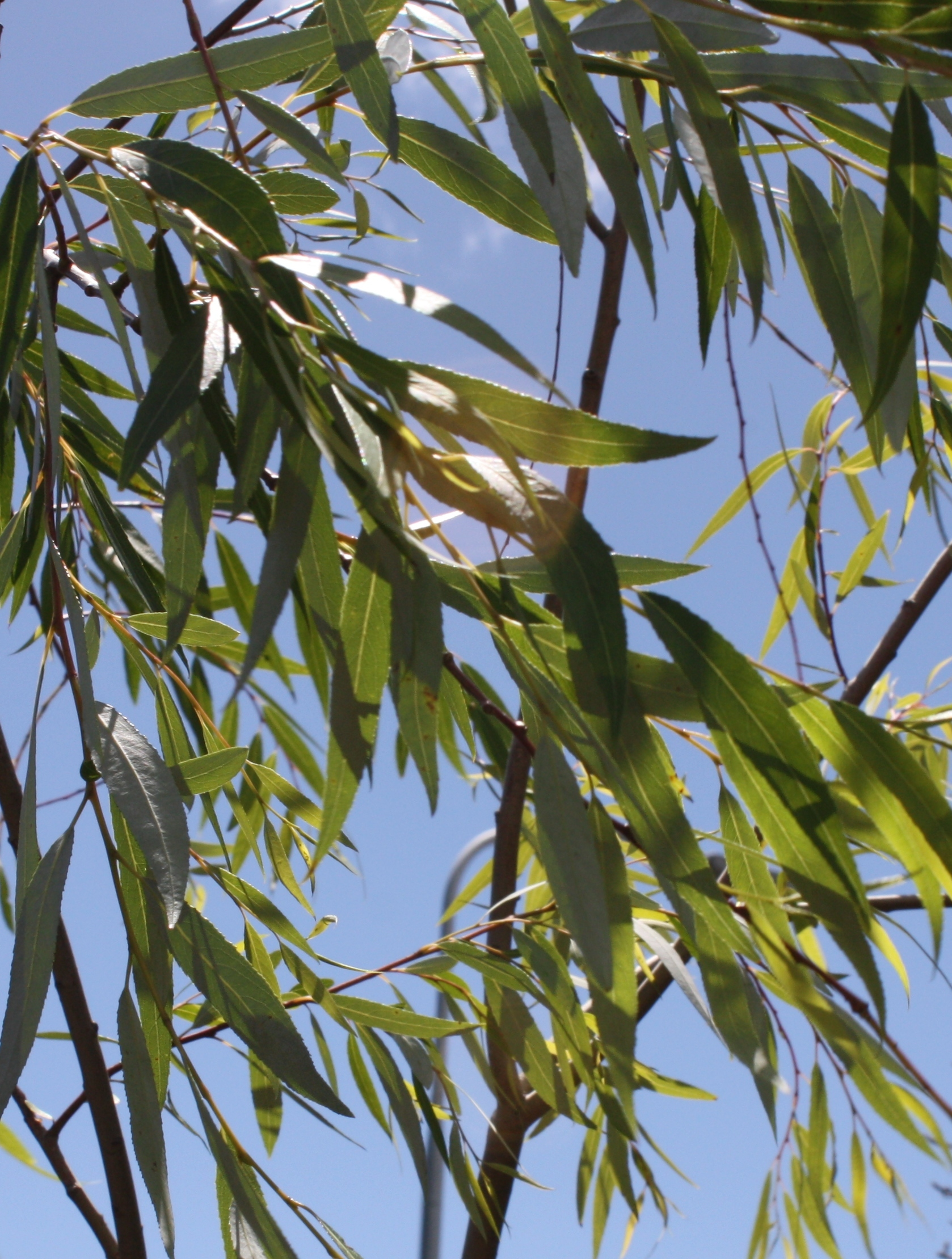 Leaves of the Cape Silver Willow or Salix mucronata